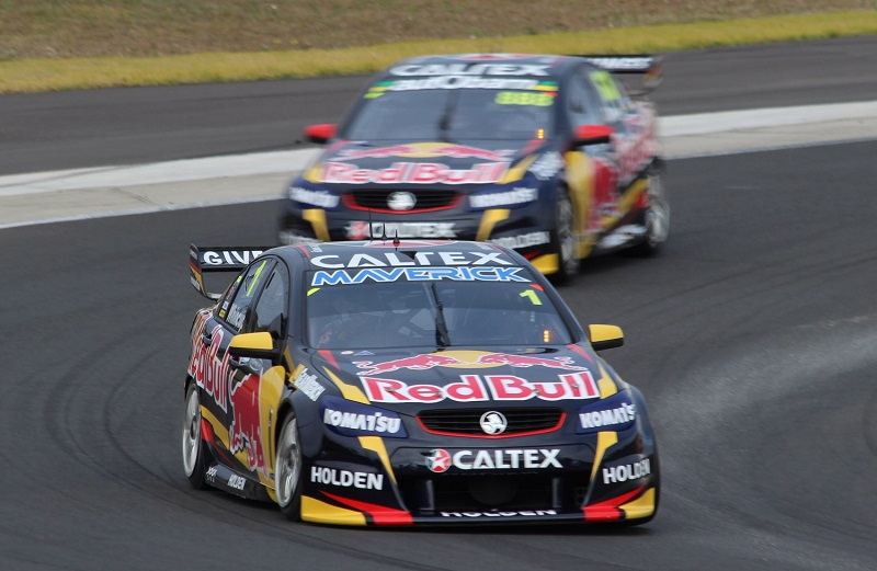 The Triple Eight Race Engineering Holden Commodores of Jamie Whincup and Craig Lowndes at the 2014 Sydney Motorsport Park 400.